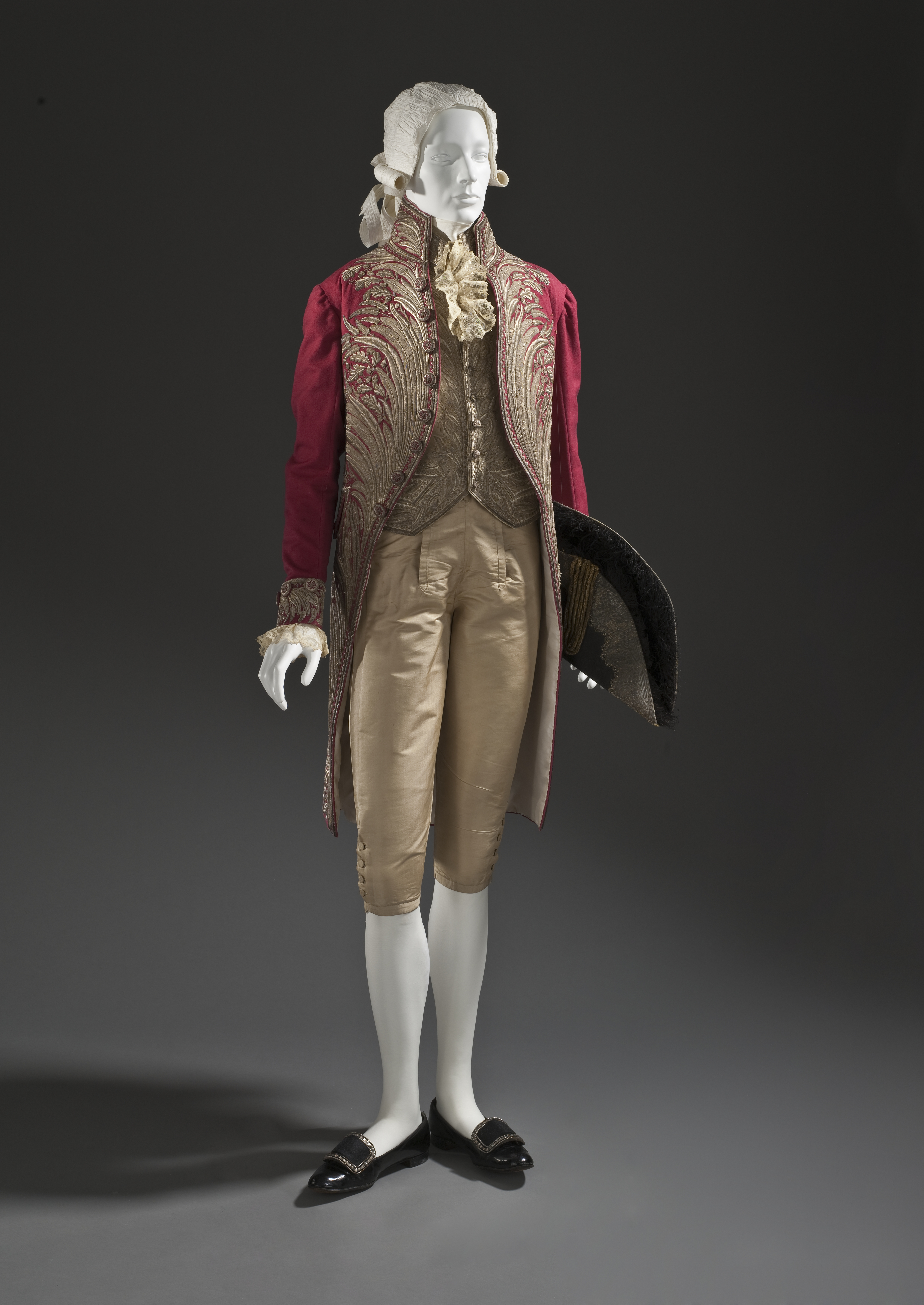 Man’s court ensemble of red wool coat and cloth-of-silver vest, Italy, circa 1800. The coat and vest are decorated with silver metallic-thread embroidery in a pattern of stylized leaves, oak leaves and acorns, worked in satin stitch directly on the cloth. Man's silk twill breeches, Italy, 1790-1800. Man's bicorne hat, France, c. 1790